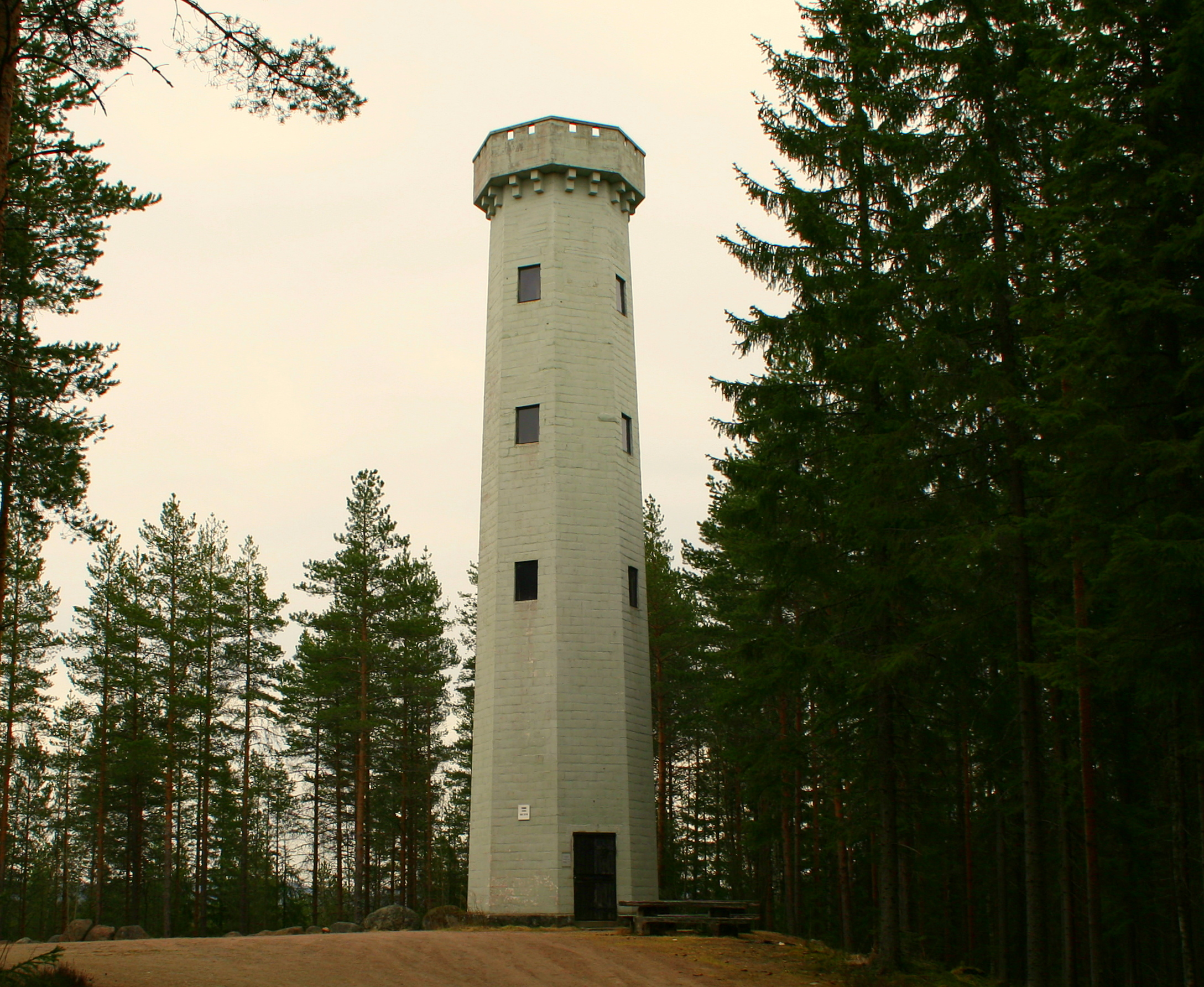 The Elving's Tower in Valkeala, Finland, build (1905–1907) by Rudolf Elving for fire guarding of the forest on his estate.